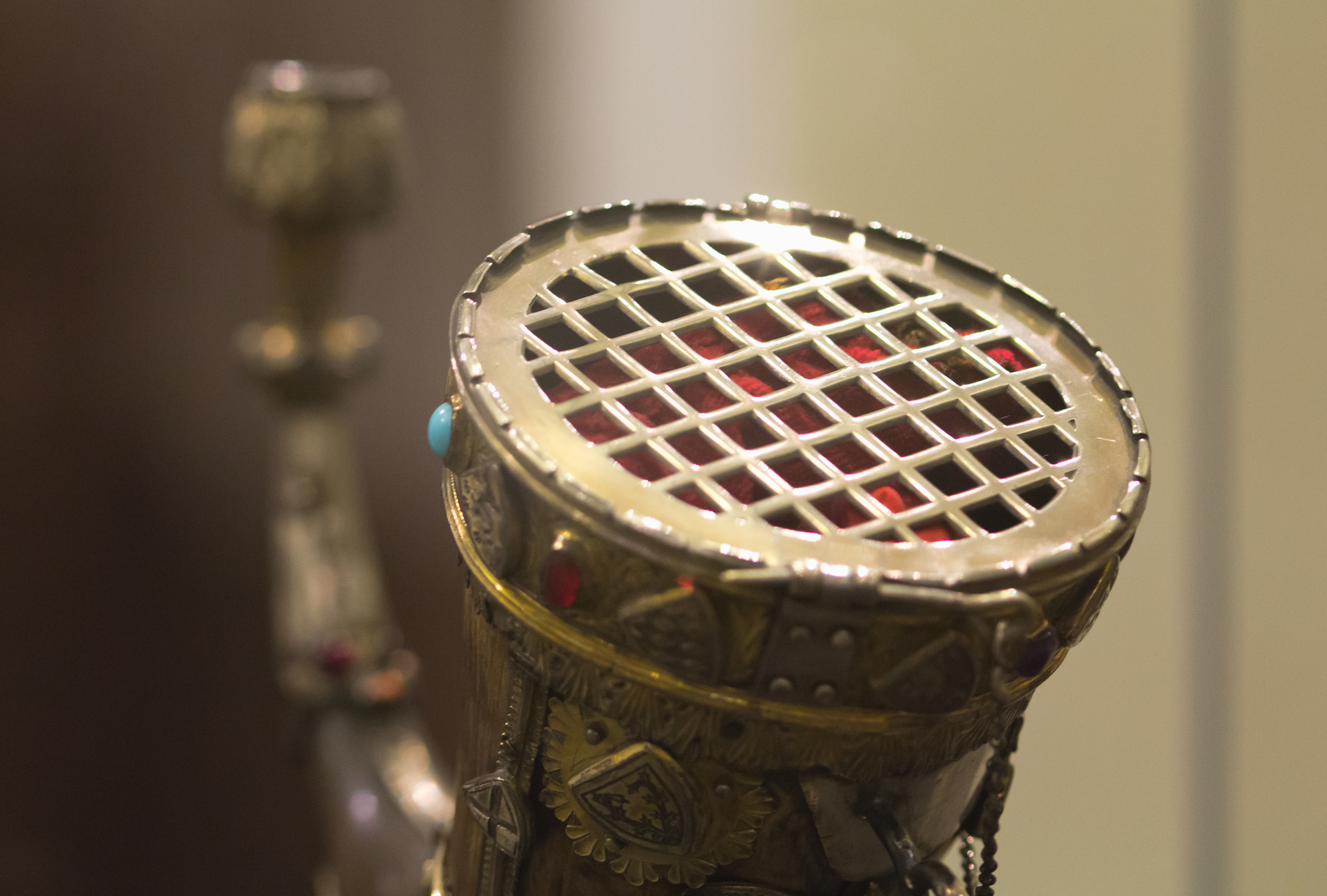 The so-called horn of Saint Cornelius in the romanesque church of St. Severin in Cologne, originally a drinking-horn, refurbished around the year 1500 as reliquary for several saints, including Saint Cornelius, Saint Cyprian, and the remains of Saint Ursula and her 11.000 virgin martyrs. It's exhibited in Museum Schnütgen in 2016 for a period of 2 months during renovation works in the church.